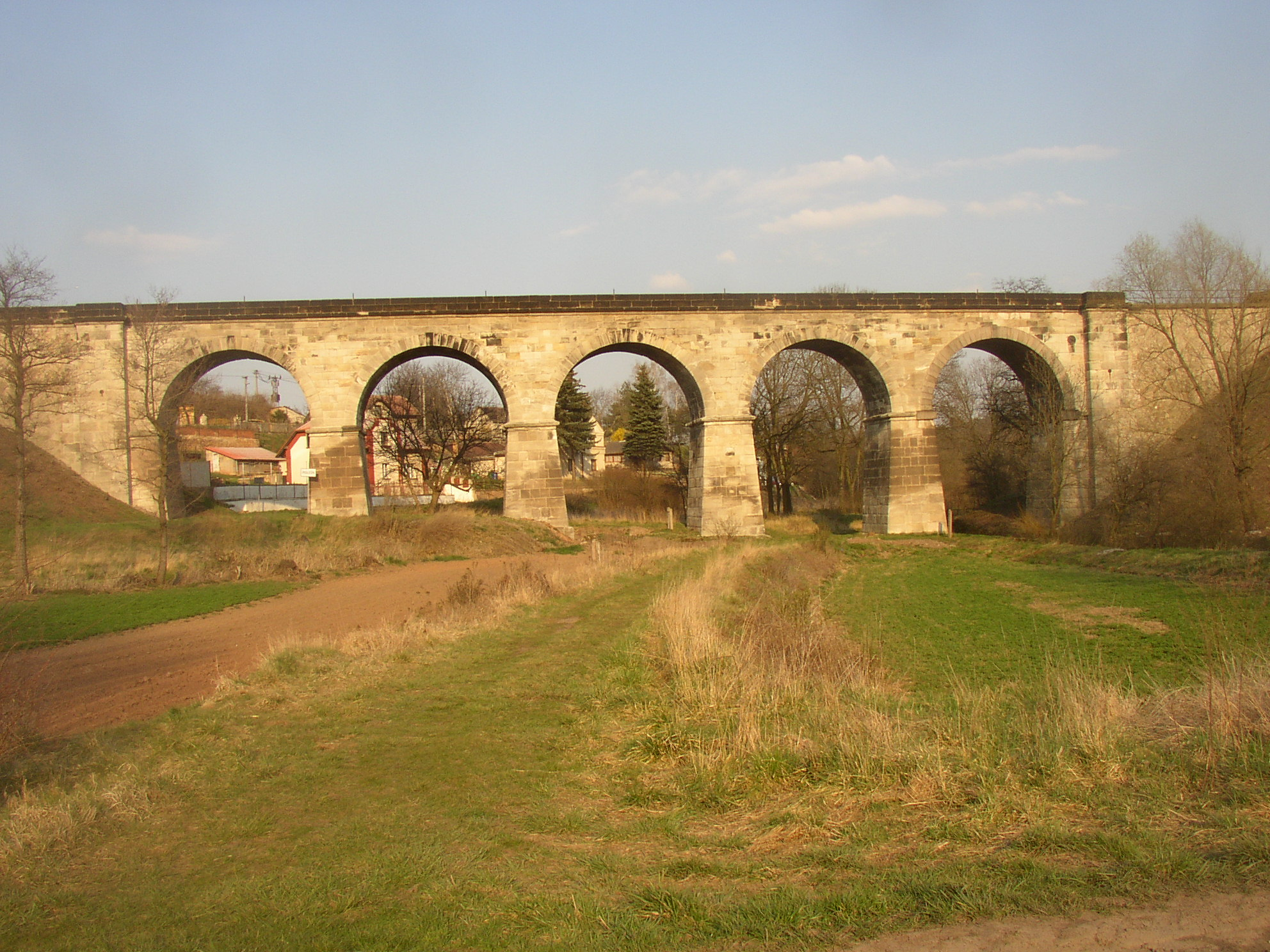 Railway viaduct from 1872-1873 in Podlešín, Czech Republic.